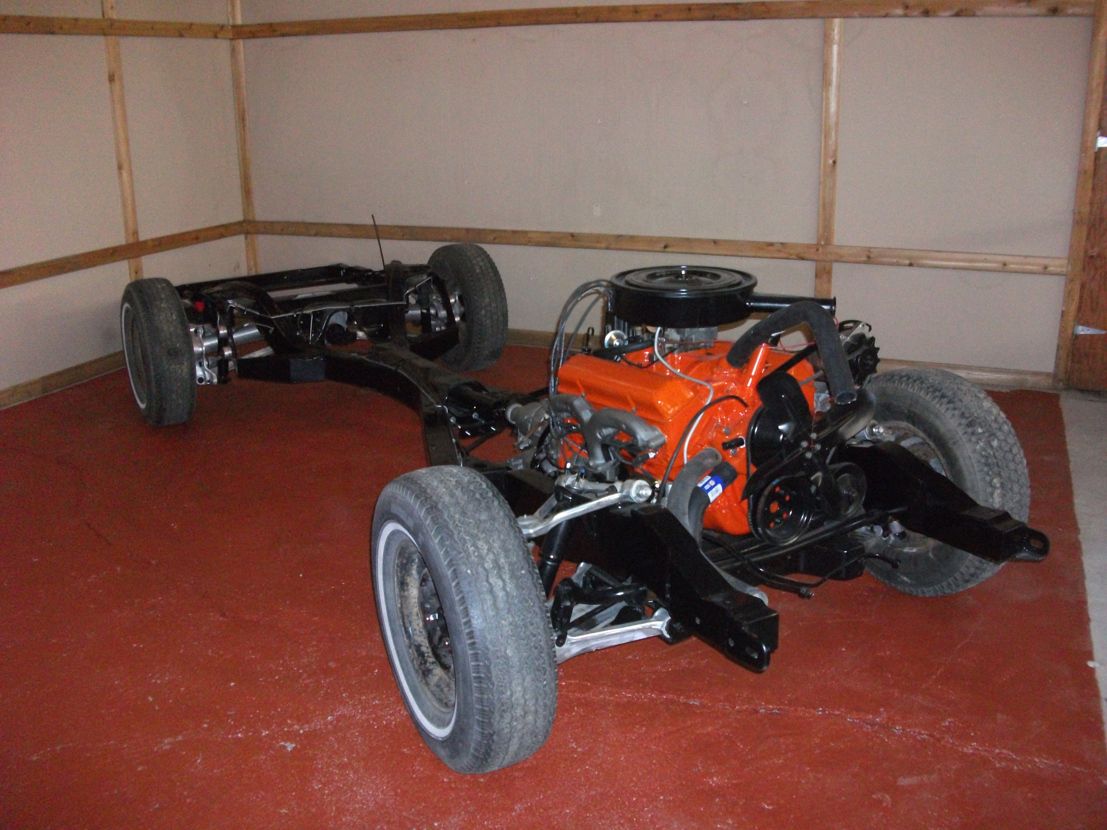 Chassis